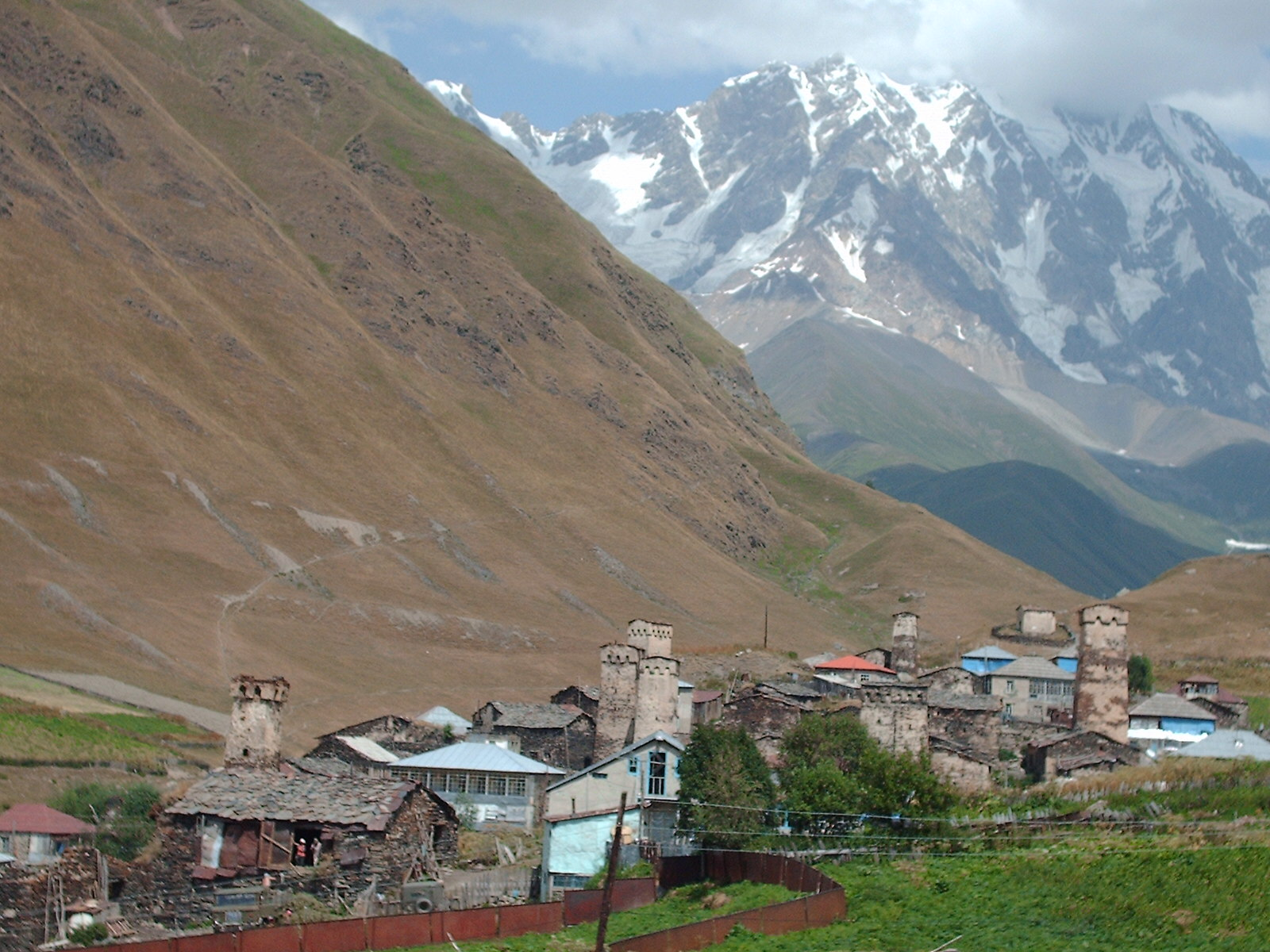 Ushguli